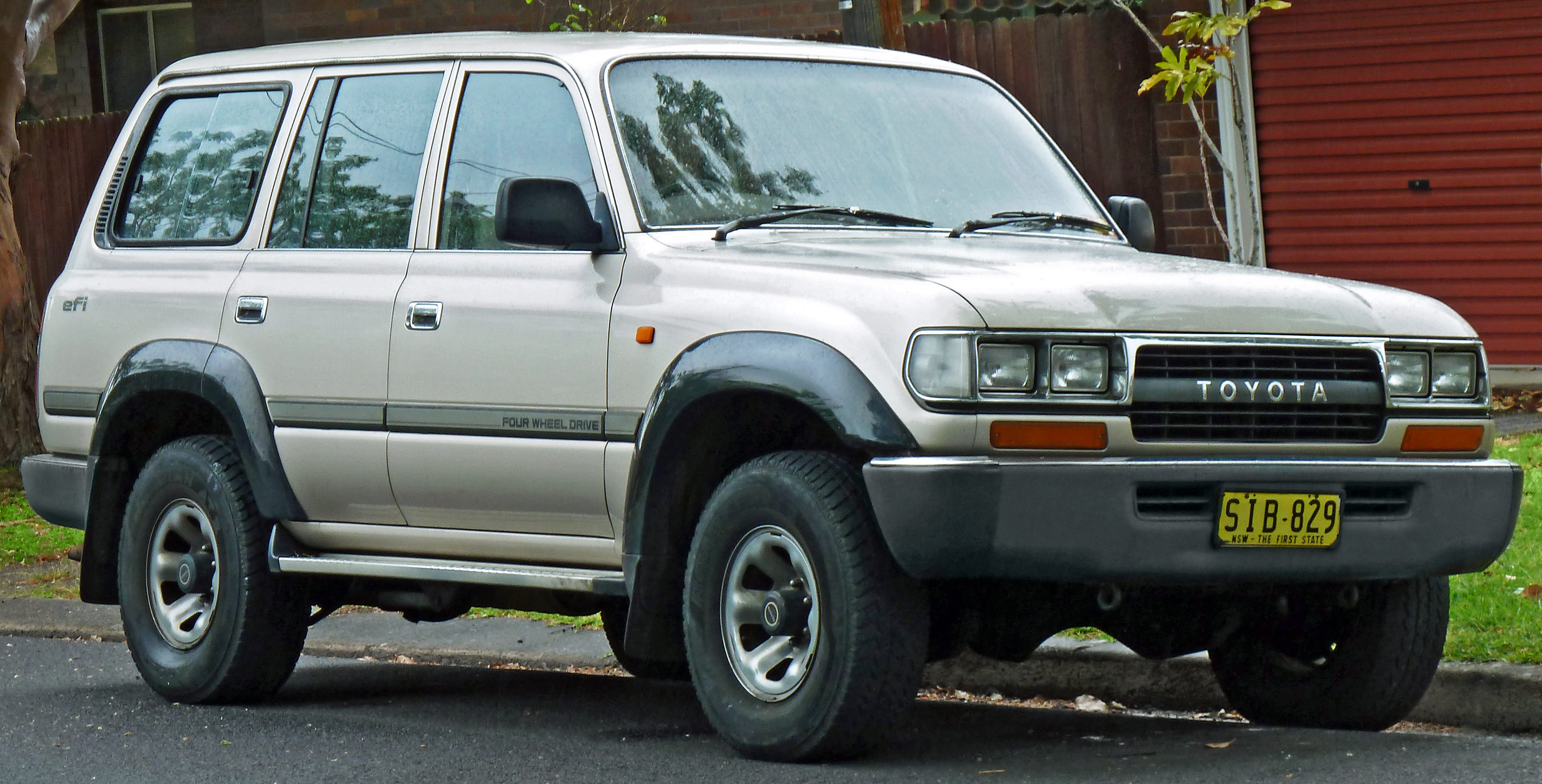 1992 Toyota Land Cruiser (FJ80R) GXL wagon. Photographed in Chatswood, New South Wales, Australia.